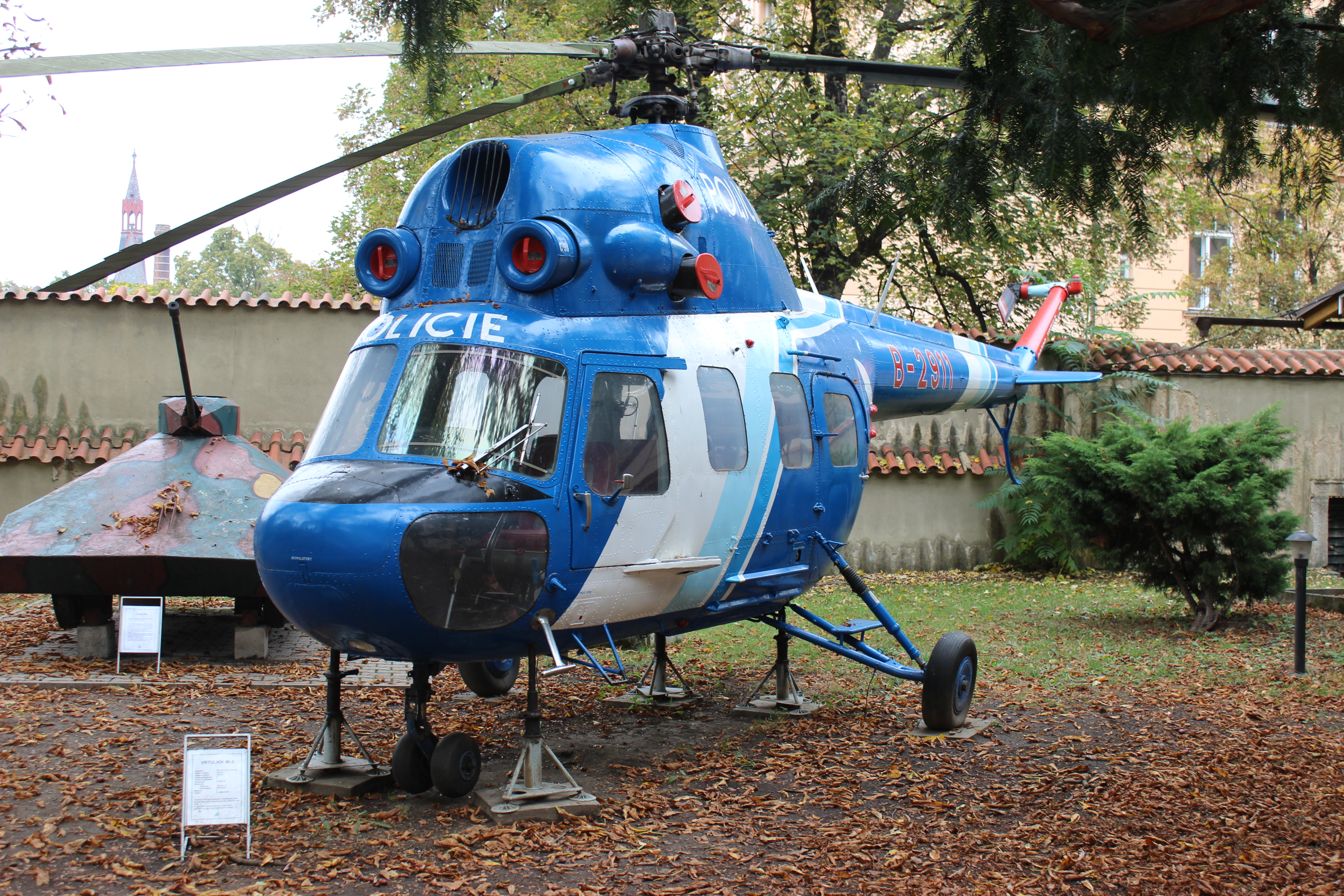 Helicopter Mi -2 of Czechoslovak police in the Police museum in Prague